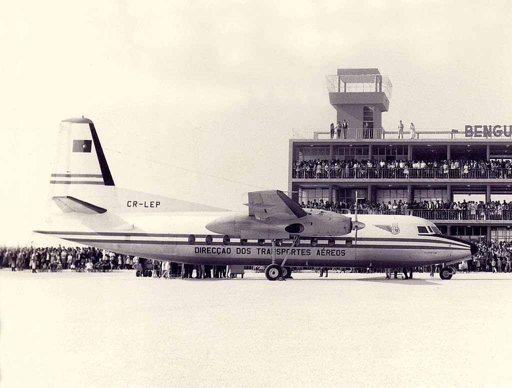 A DETA—Direcção dos Transportes Aéreos Fokker F-27-200 at Benguela Airport (BUG / FNBG)